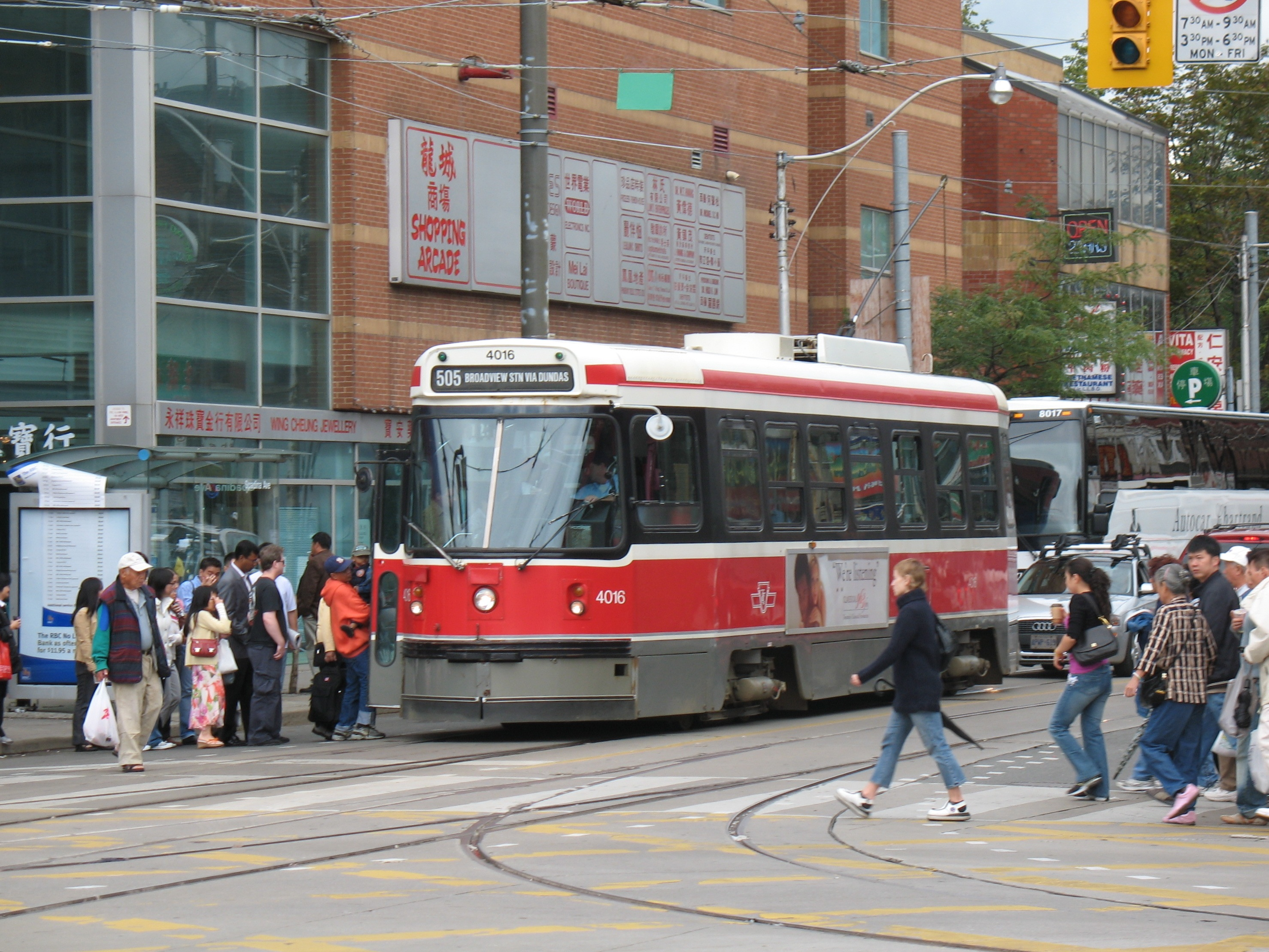 A streetcar in Toronto, Ontario, Canada